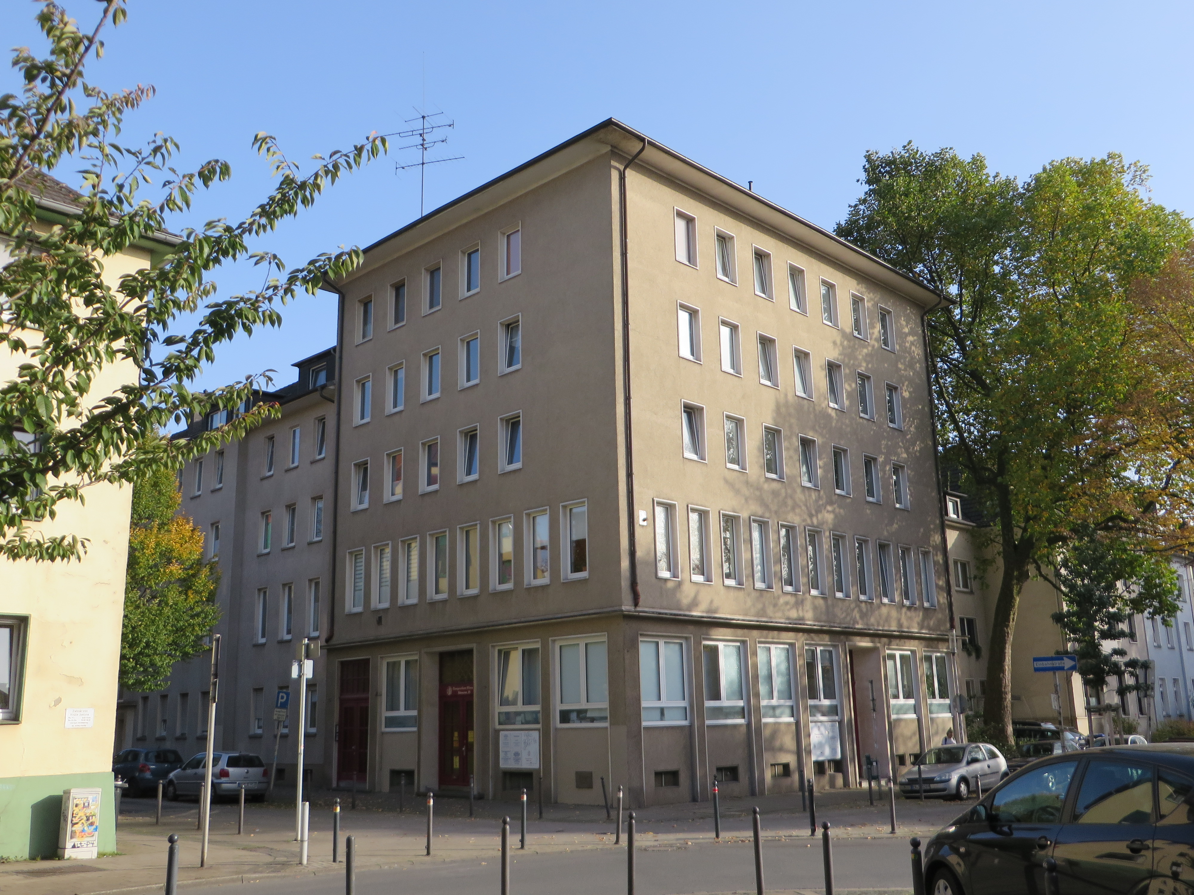 Health center Therapeutikum Witten, house Körnerstraße 25/Steinstraße 19 in Witten, Germany